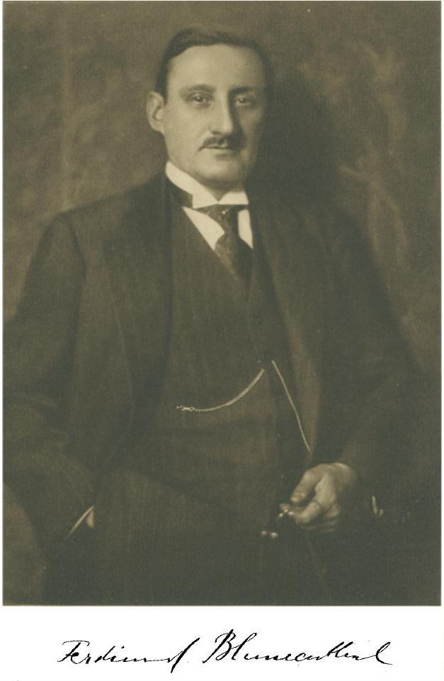 Ferdinand Blumenthal